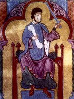 Raymond of Burgundy